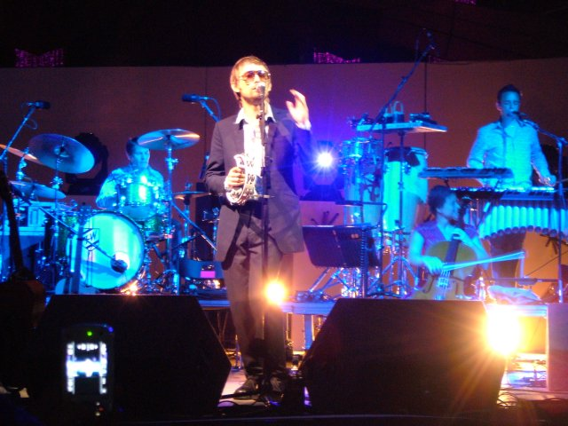 The Divine Comedy performing at the Summer Sundae festival, Leicester, 10 August 2007.